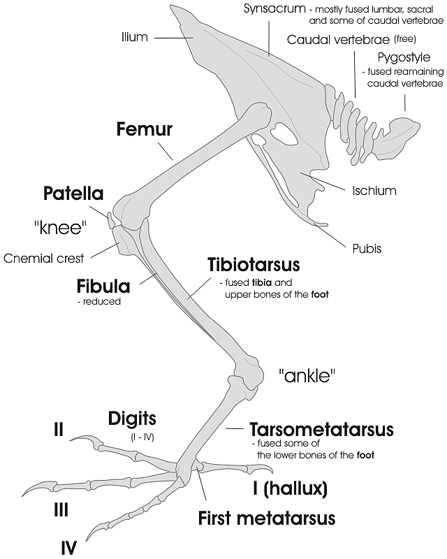 Bird left leg and pelvic girdle skeleton Labelled structures: fingers (i.e. hallux), first metatarsus, tarsometatarsus, "ankle", tibiotarsus, fibula, cnemial crest, "knee", patella, femur, ischium, pubis, ilium, synsacrum, caudal vertebrae (not fused), pygostyle